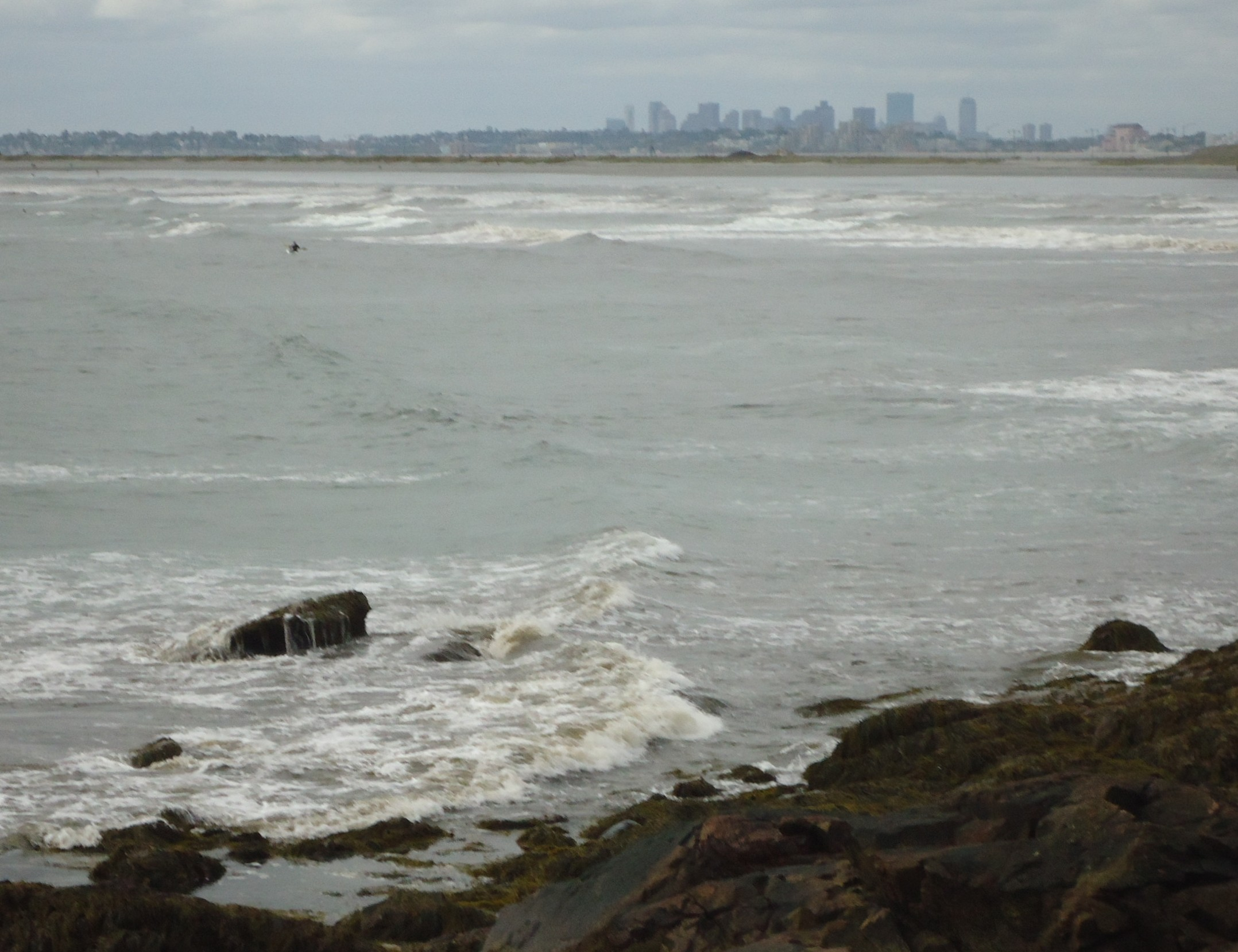 Looking southwest with Boston skyline in the distance, at surfers in the Atlantic Ocean, at Lynn, Massachusetts, at Red Rock Park on the Atlantic Ocean.